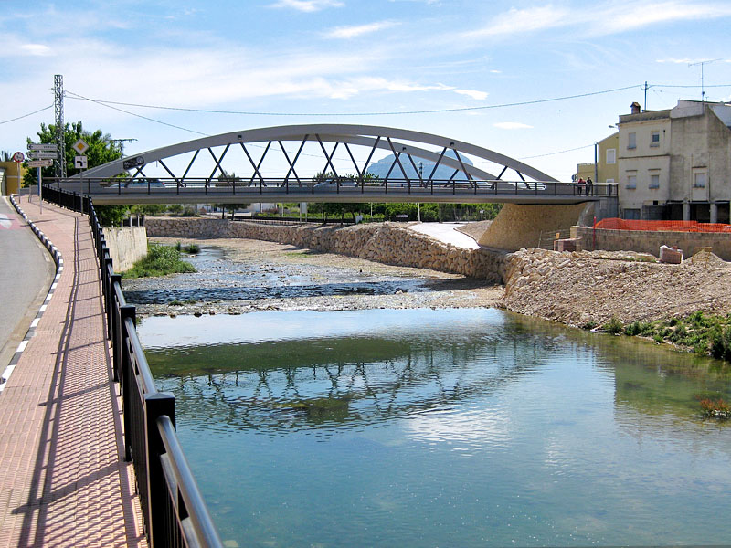 Bridge over the river Girona in Beniarbeig, Valencian Counrty, Spain. Pont sobre el riu Girona, a Beniarbeig, Marina Alta, País Valencià. Substiueix el pont antic que fou enderrocat per la riuada de l'octubre de 2007.